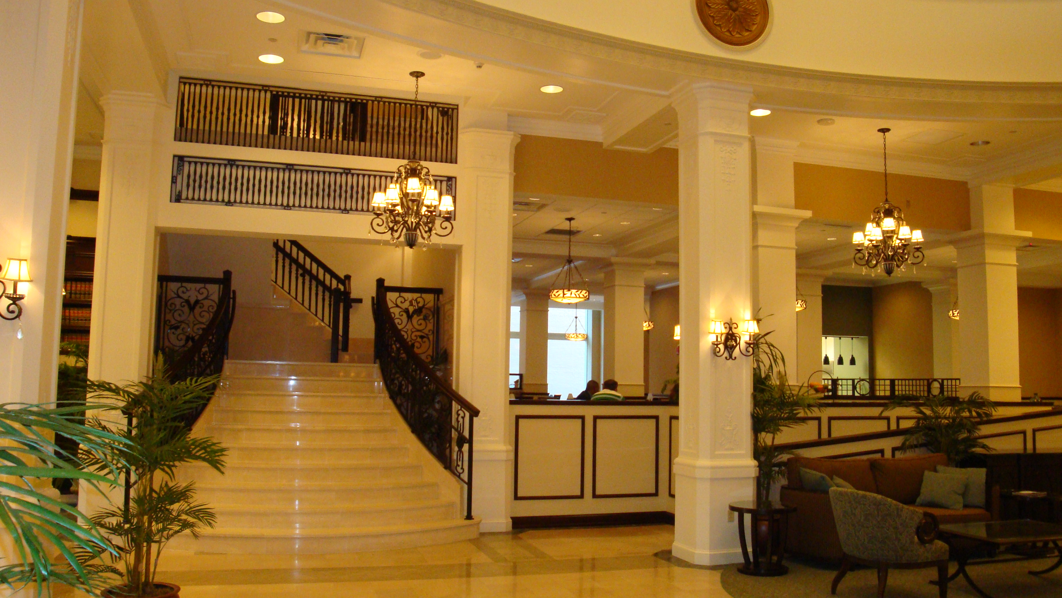 Staircase in the lobby of the newly renovated Hotel King Edward in Jackson, Ms.